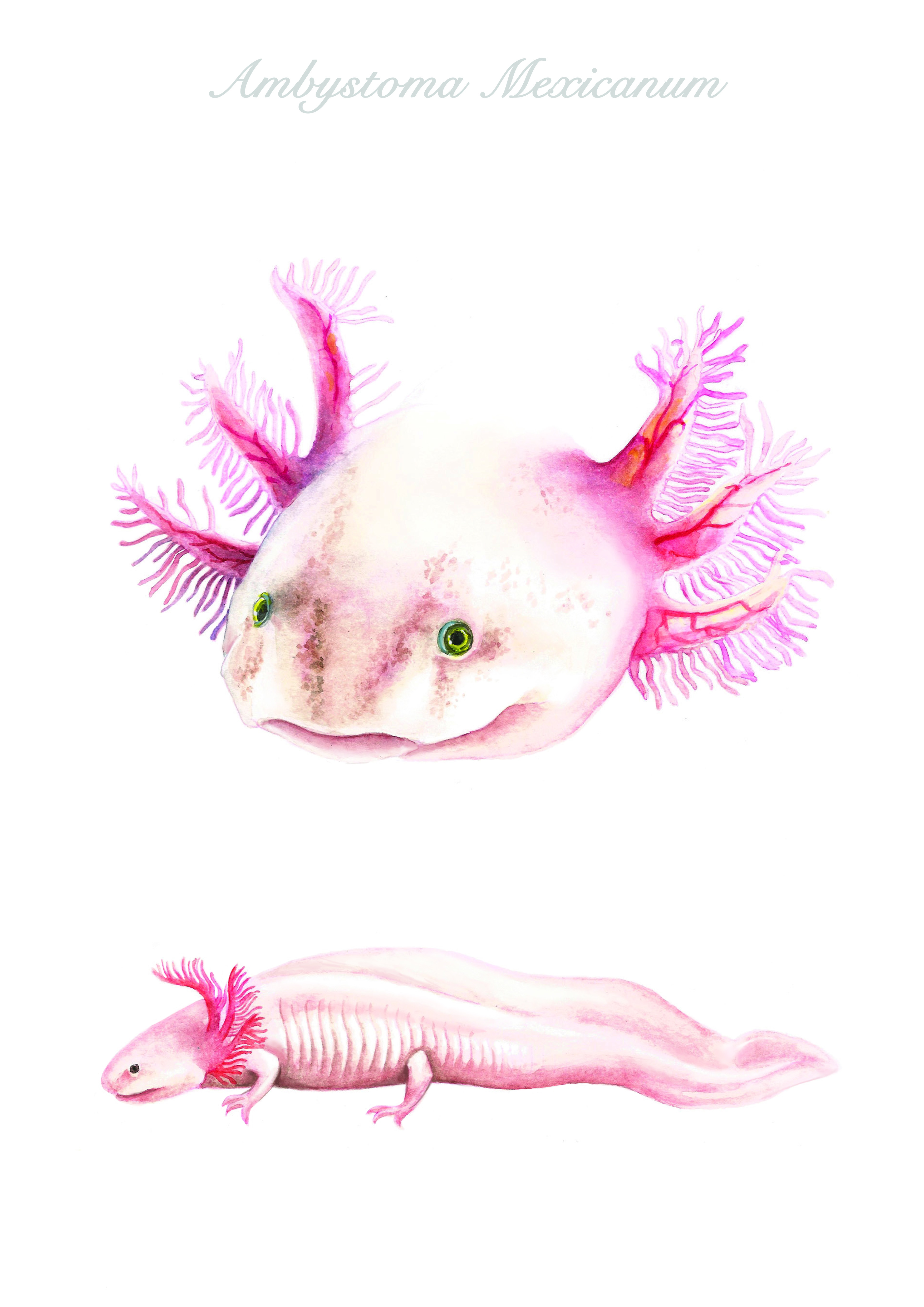 Drawings of axolotls (Ambystoma mexicanum)